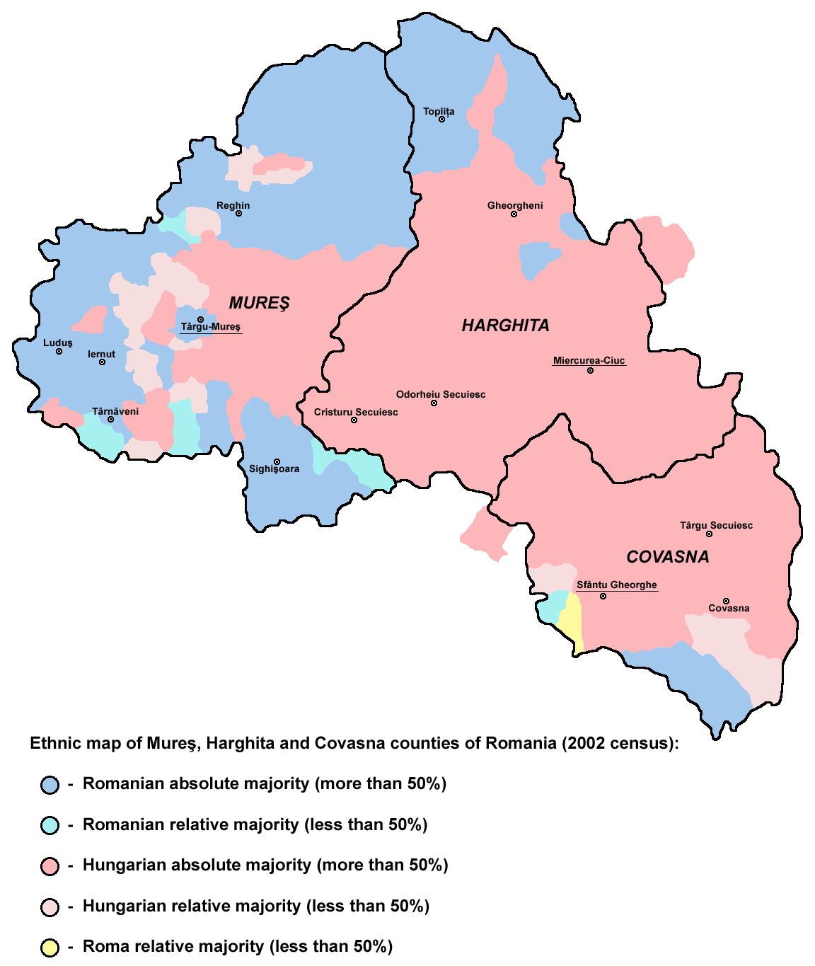 Ethnic map of Székelyland (Mureş, Harghita and Covasna counties) in Romania (2002 census data by municipalities).